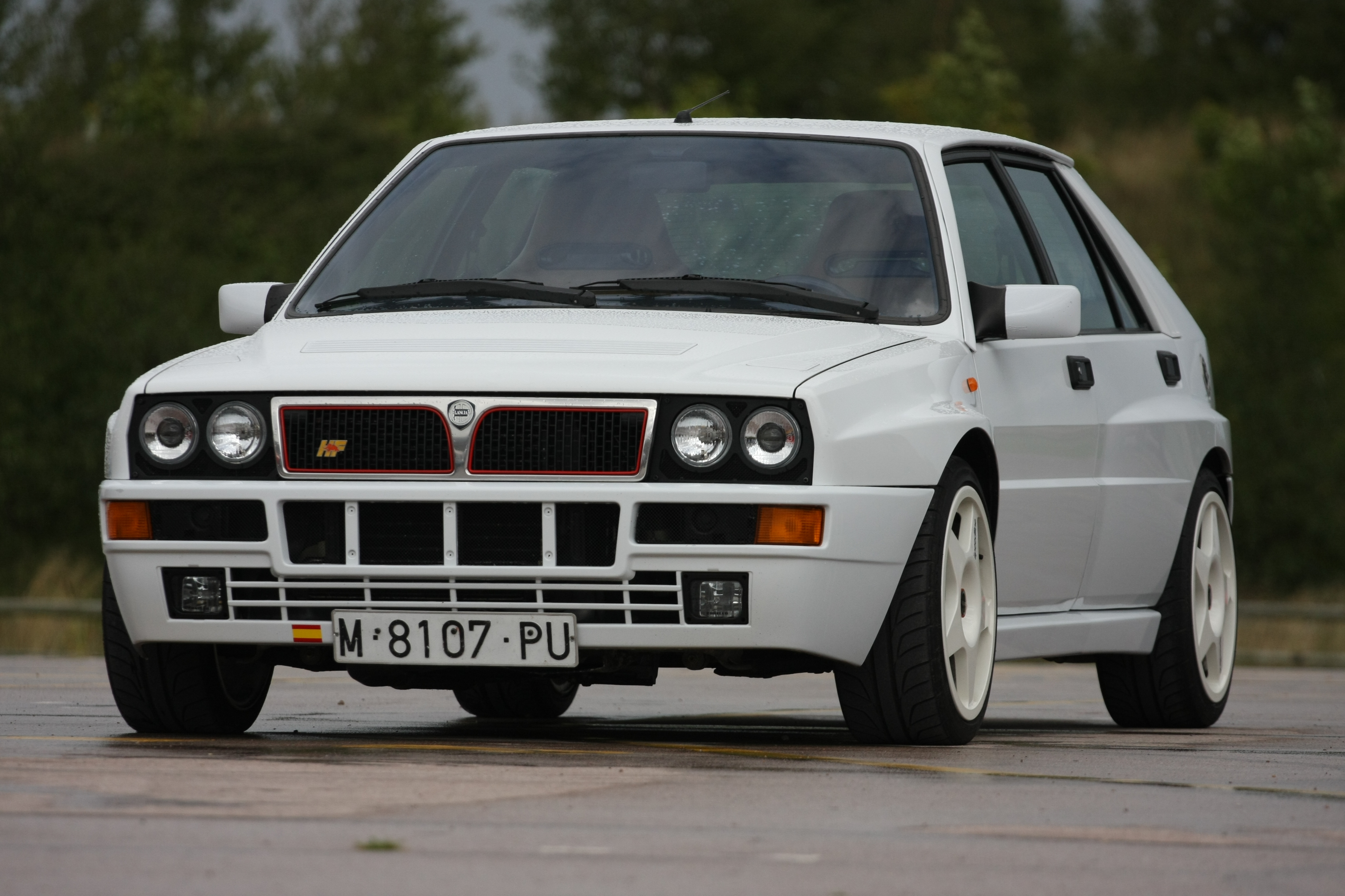 Auto Italia Autumn Italian Car Day Heritage Motor Centre Gaydon 2010